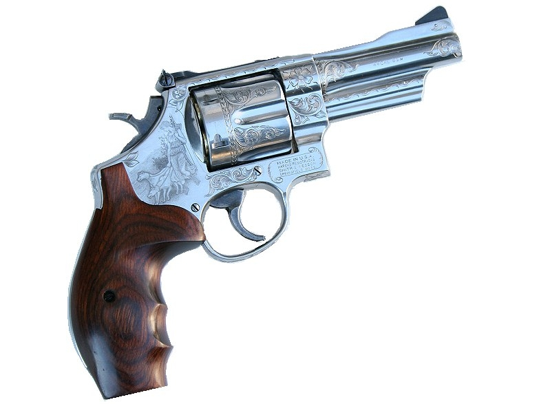 629 Mountain gun variant of the S&W Model 29. Introduced in 1995 in .44 magnum with subsequent variations in other calibers.